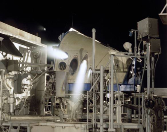 Night Firing of Shuttle Forward RCS Primary and Vernier Thrusters.